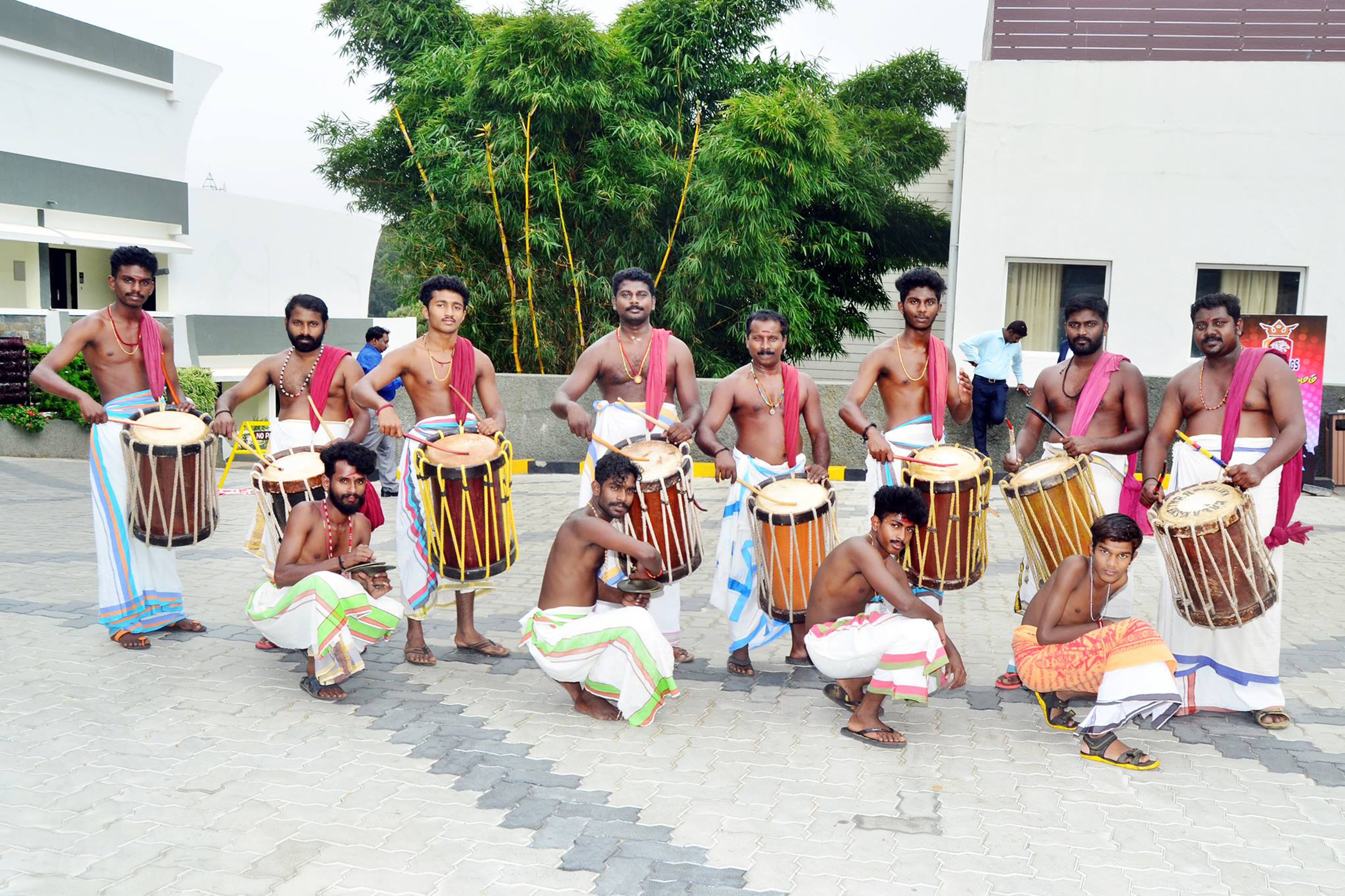 During a Function